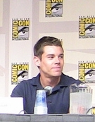 Brian J. Smith at the Comic-Con 2009 - Stargate Universe panel - San Diego, Calif. - July 24, 2009.